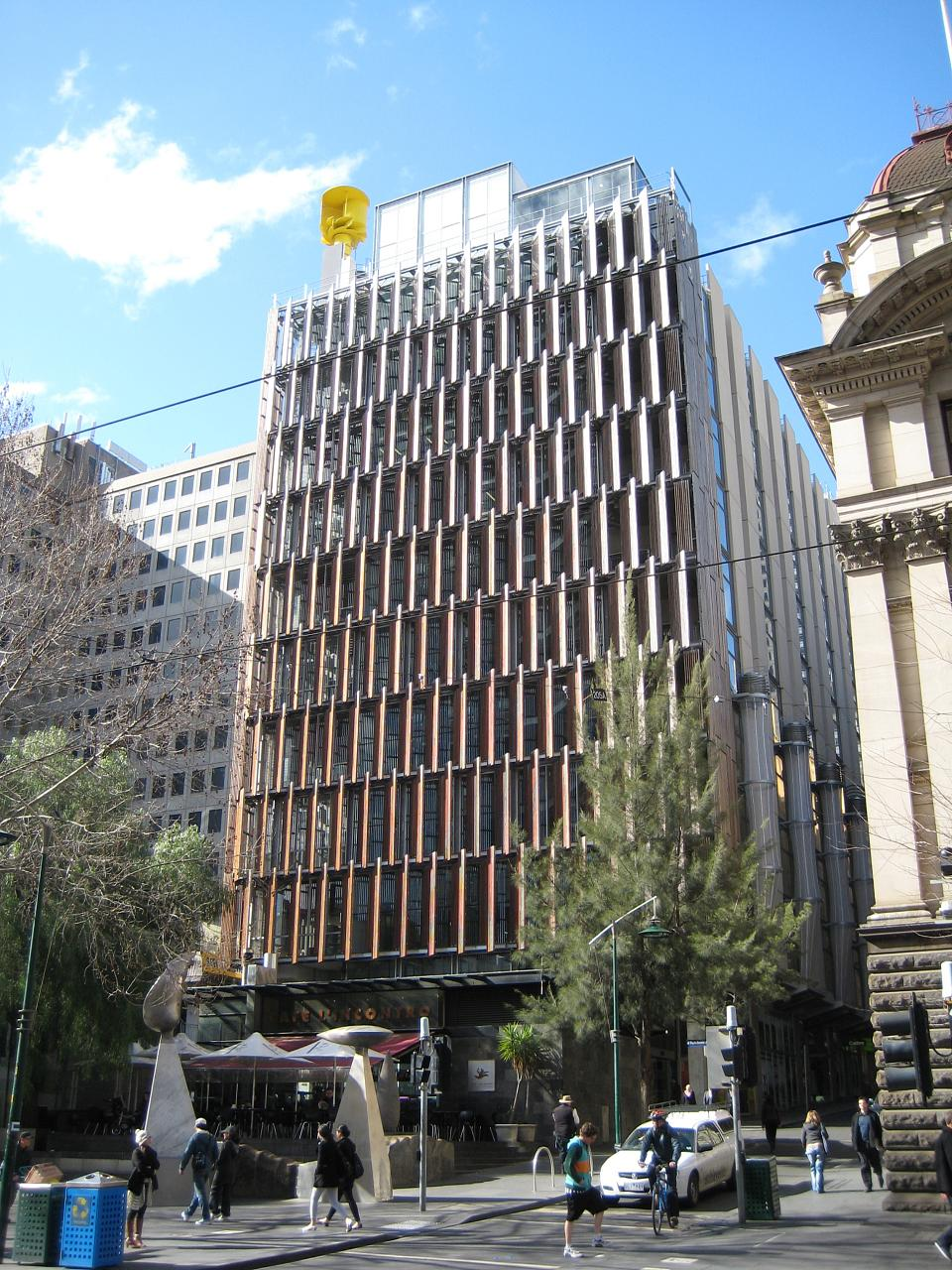 An image of Council House 2 in Melbourne, Australia.